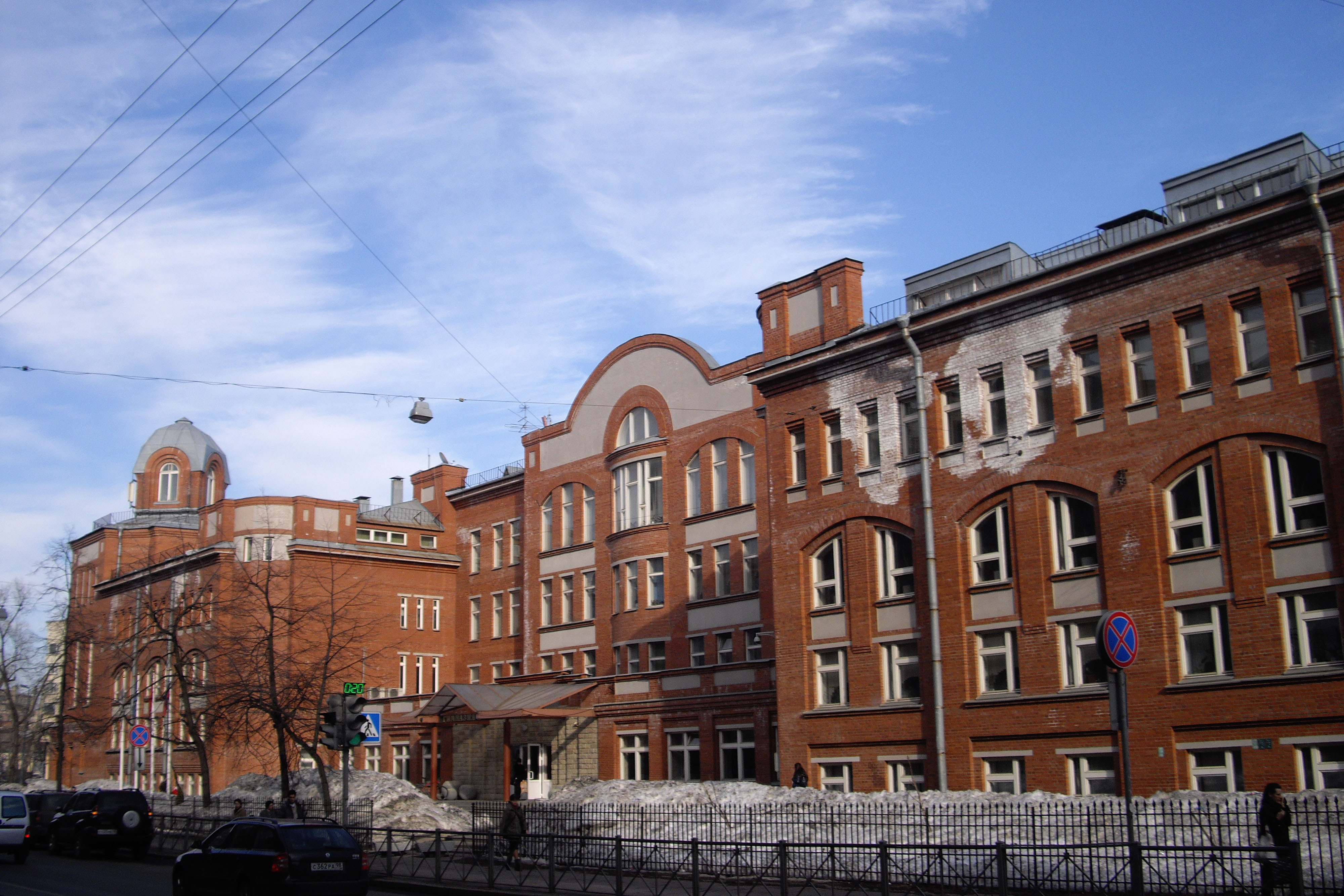 35, Chkalovsry Prospekt (Saint Petersburg, Russia). Gymnasyum number 56 building/